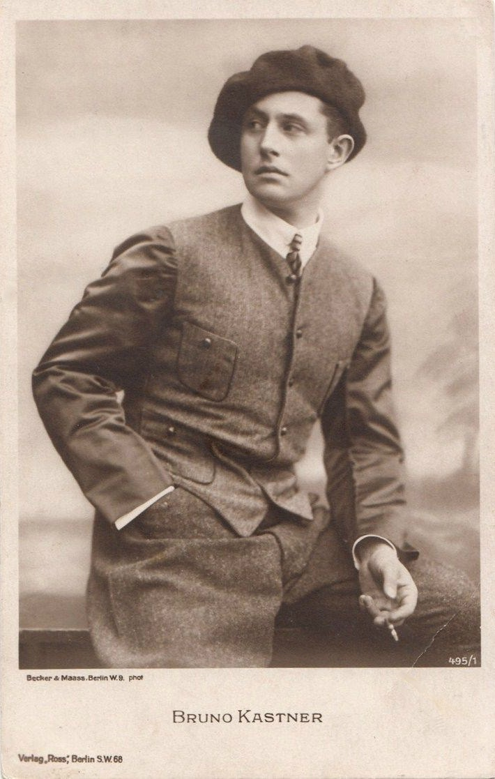 Portrait of German actor Bruno Kastner (1890–1932) by Becker & Maass. Distibuted by Ross-Verlag.